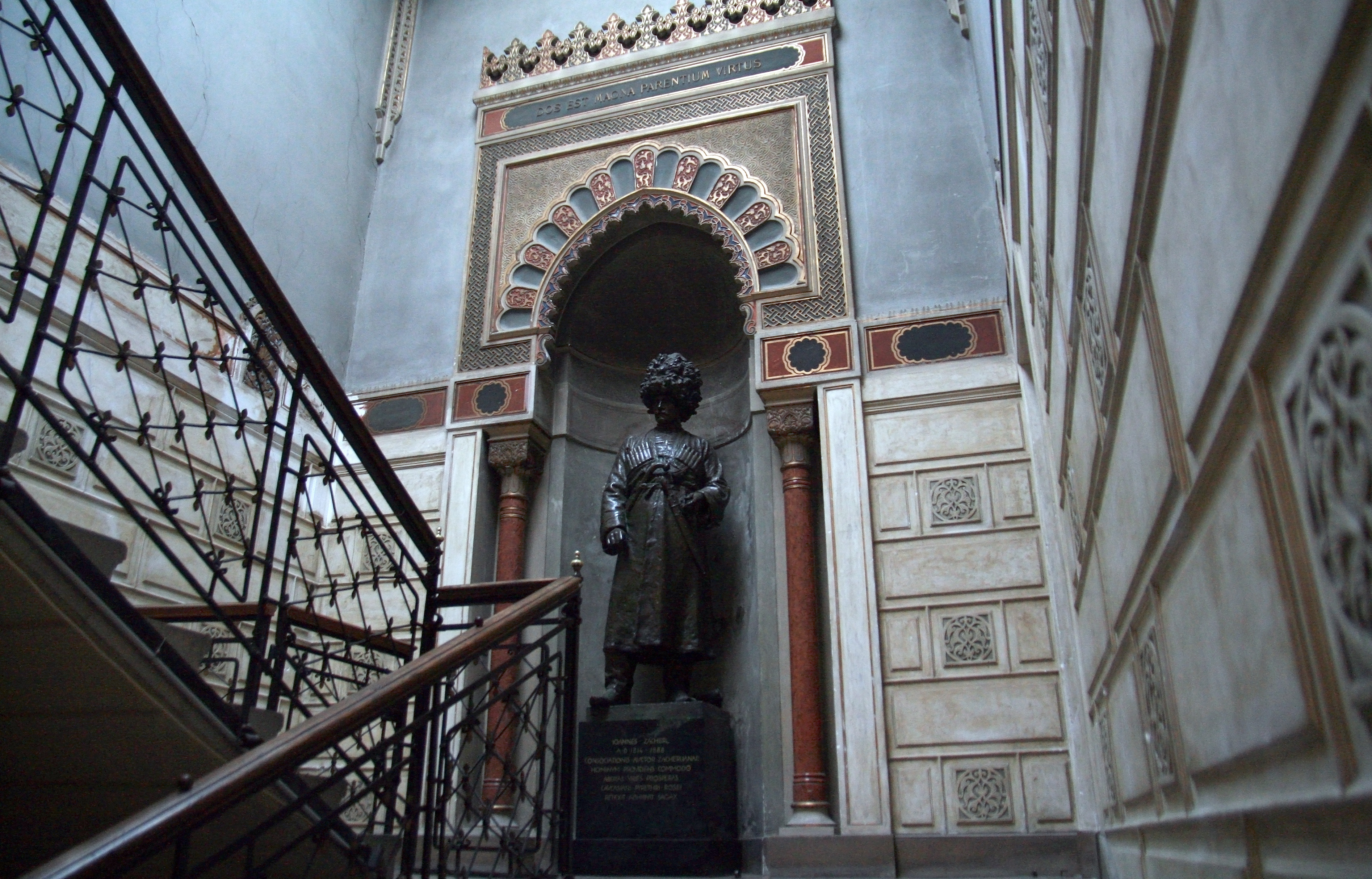 Statue of Johann Zacherl at Zacherlfabrik in Vienna, Austria. Dieses Bild wurde anlässlich des österreichischen Tags des Denkmals 2012 in Wien eingereicht.